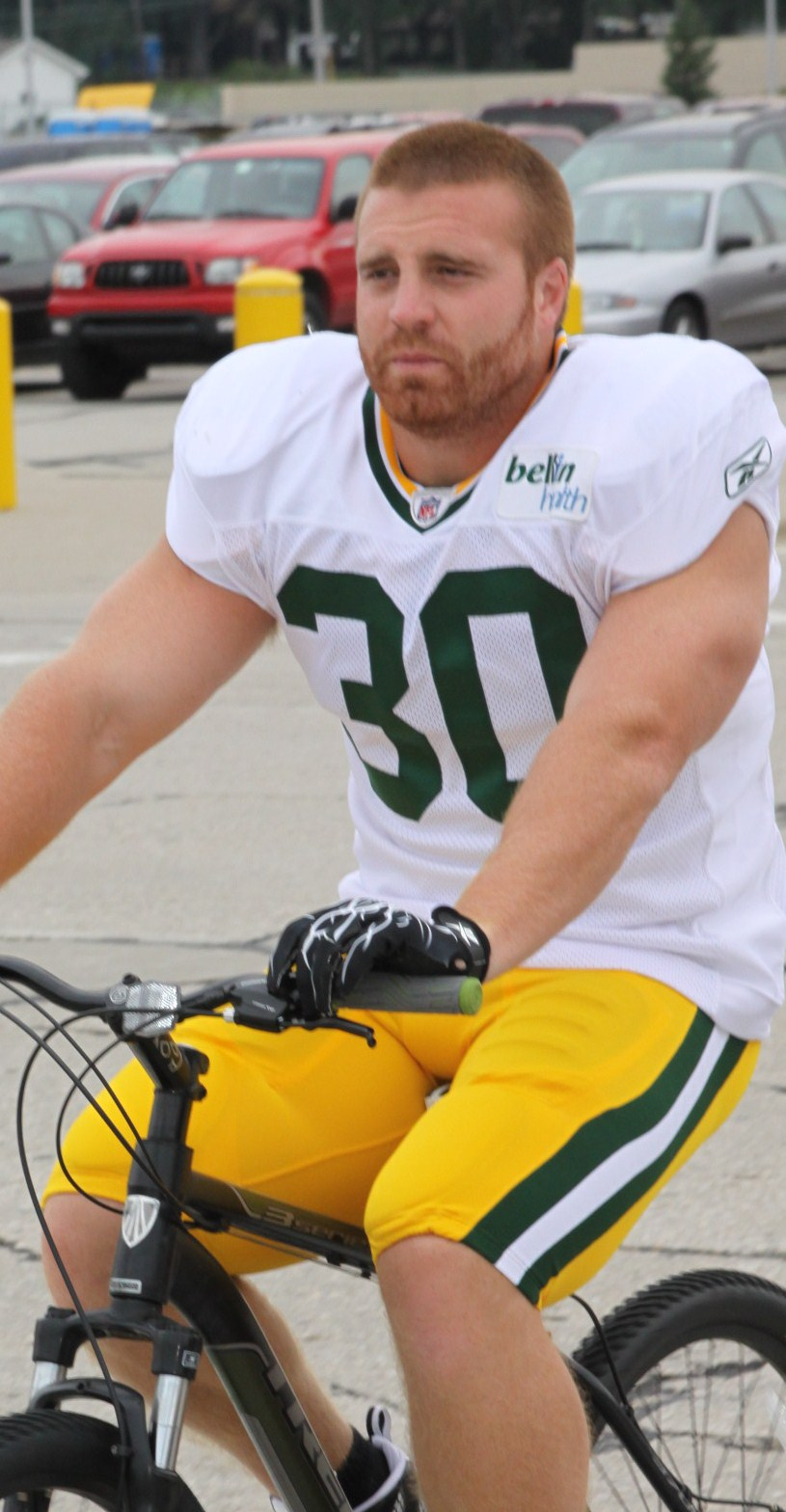 Green Bay Packers running back John Kuhn riding a fan's bicycle at pre-season training camp, Green Bay Wisconsin, Agust 5, 2011